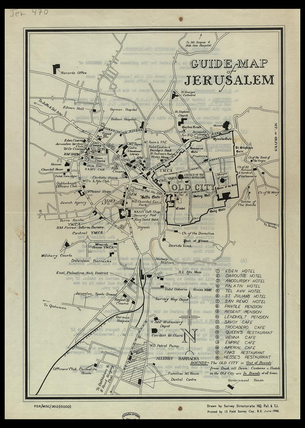 Map of Jerusalem for the use of British soldiers. Includes information regarding location of hotels and cafes. On verso written instructions for soldiers. Published 1946.